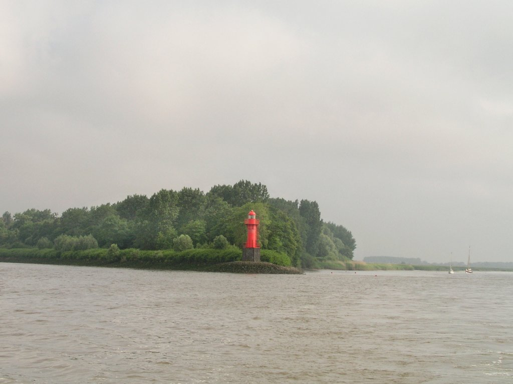 Island Pagensand in the river Elbe (Germany), photo 2007